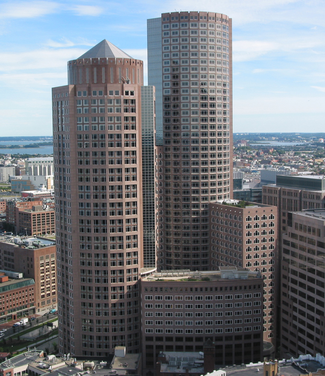 International Place (complex) in Boston